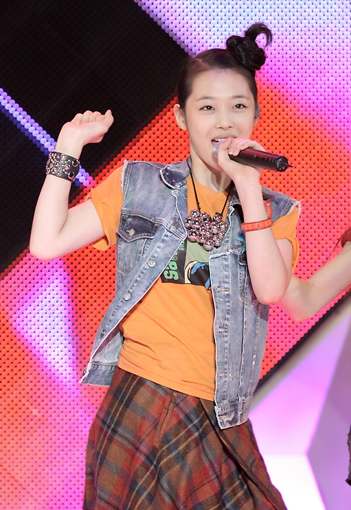 Sulli at the Live Power Music on September 18, 2009.